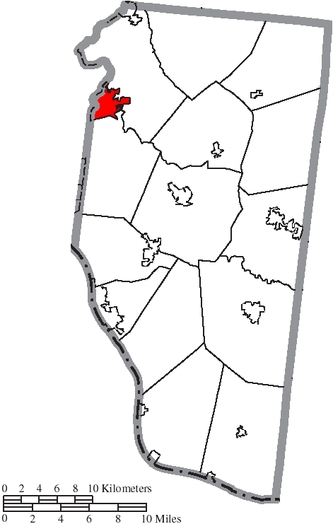 Map of the municipal and township boundaries of Clermont County, Ohio, United States, as of the 2000 census, with the location of the city of Milford highlighted. Township borders are shown only in unincorporated areas in order to differentiate incorporated and unincorporated areas more clearly.